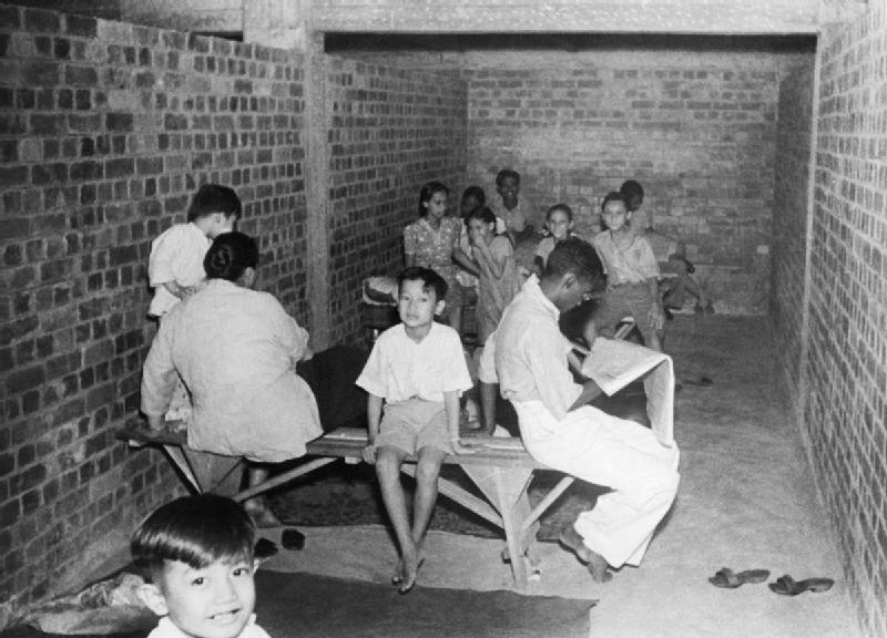 The Japanese Campaign and Victory 8 December 1941 - 15 February 1942: Civilians in a Singapore air raid shelter during a Japanese bombing raid.